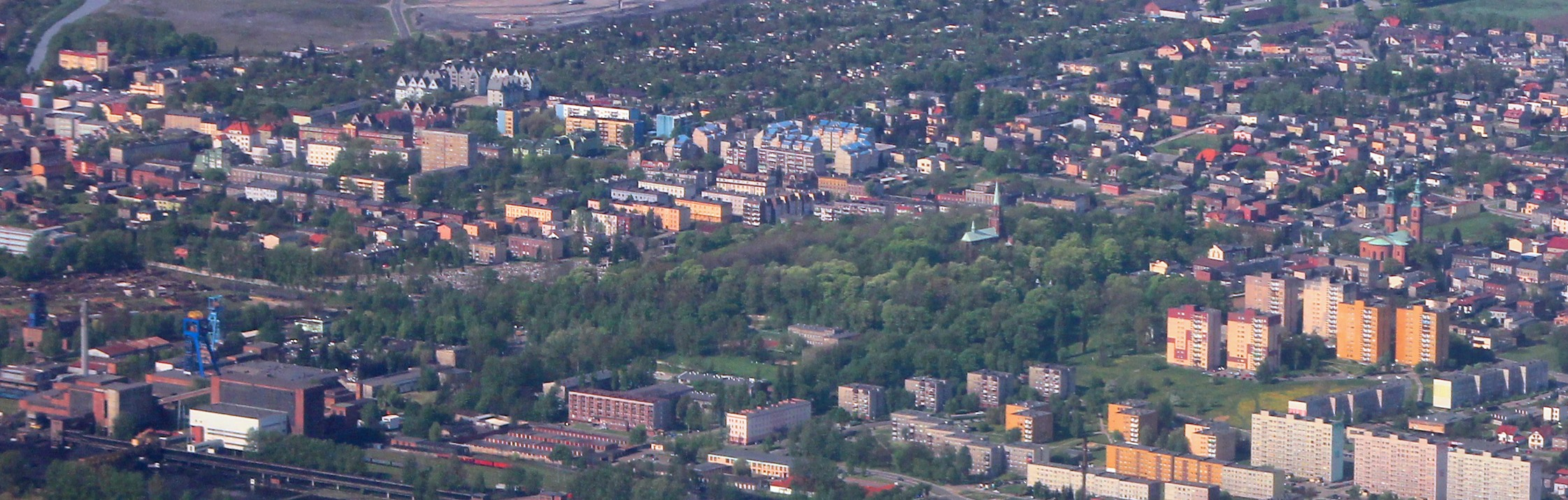 View from the northeast towards Centrum district in Piekary Śląskie, Poland.